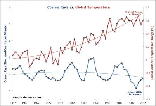 Comparison between galactic cosmic ray flux and temperature